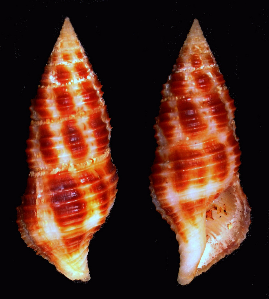 Turrilatirus craticulatus; Siargao Island, Mindanao, Philippines